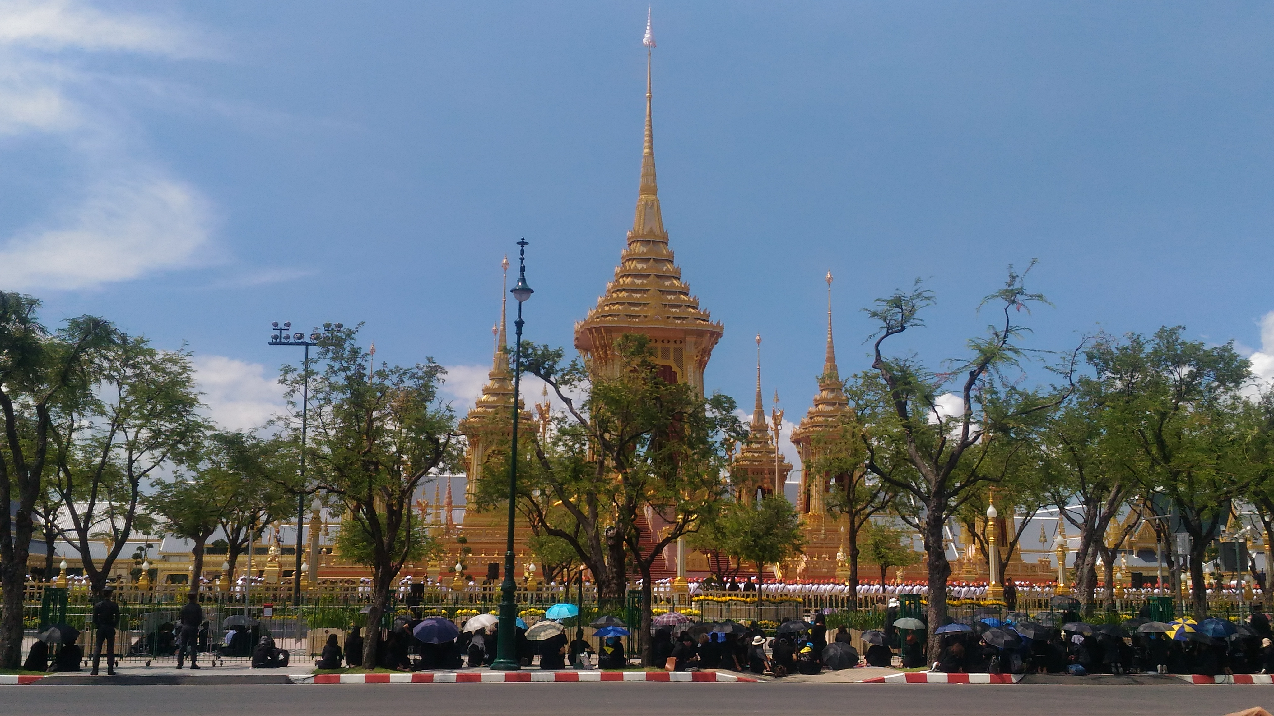 Royal crematorium of Bhumibol Adulyadej, as seen on October 21, 2017.